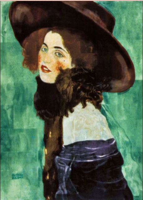 Gustav Klimt, Portrait of a Young Lady, as it would have looked before the artist repainted it as The Lady. Courtesy of the Ricci-Oddi gallery, Piacenza, Italy.